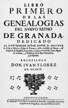 Cover of the First book of Genealogías de la Nueva Granada